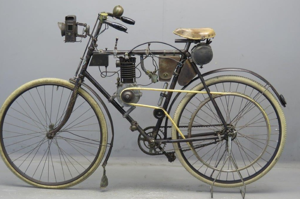 Brutus 108 cc motorcycle 1902